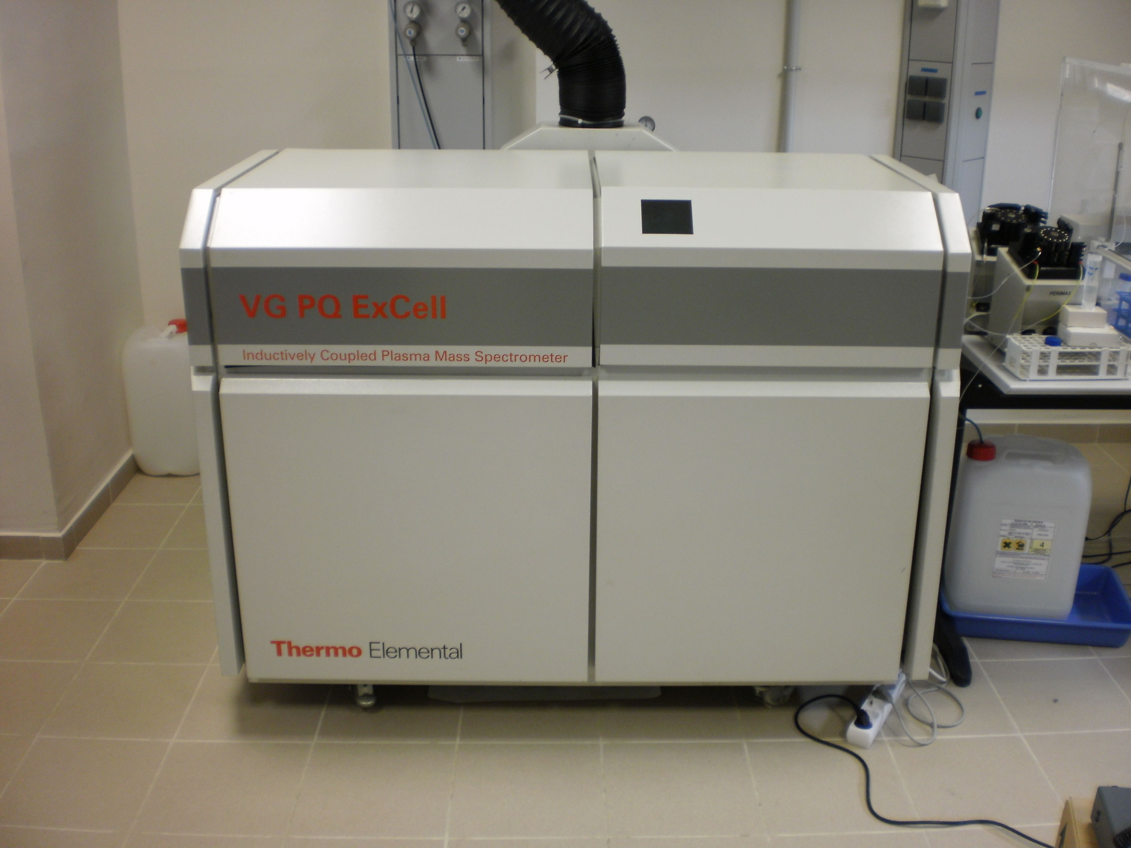 ICP-MS by Thermo